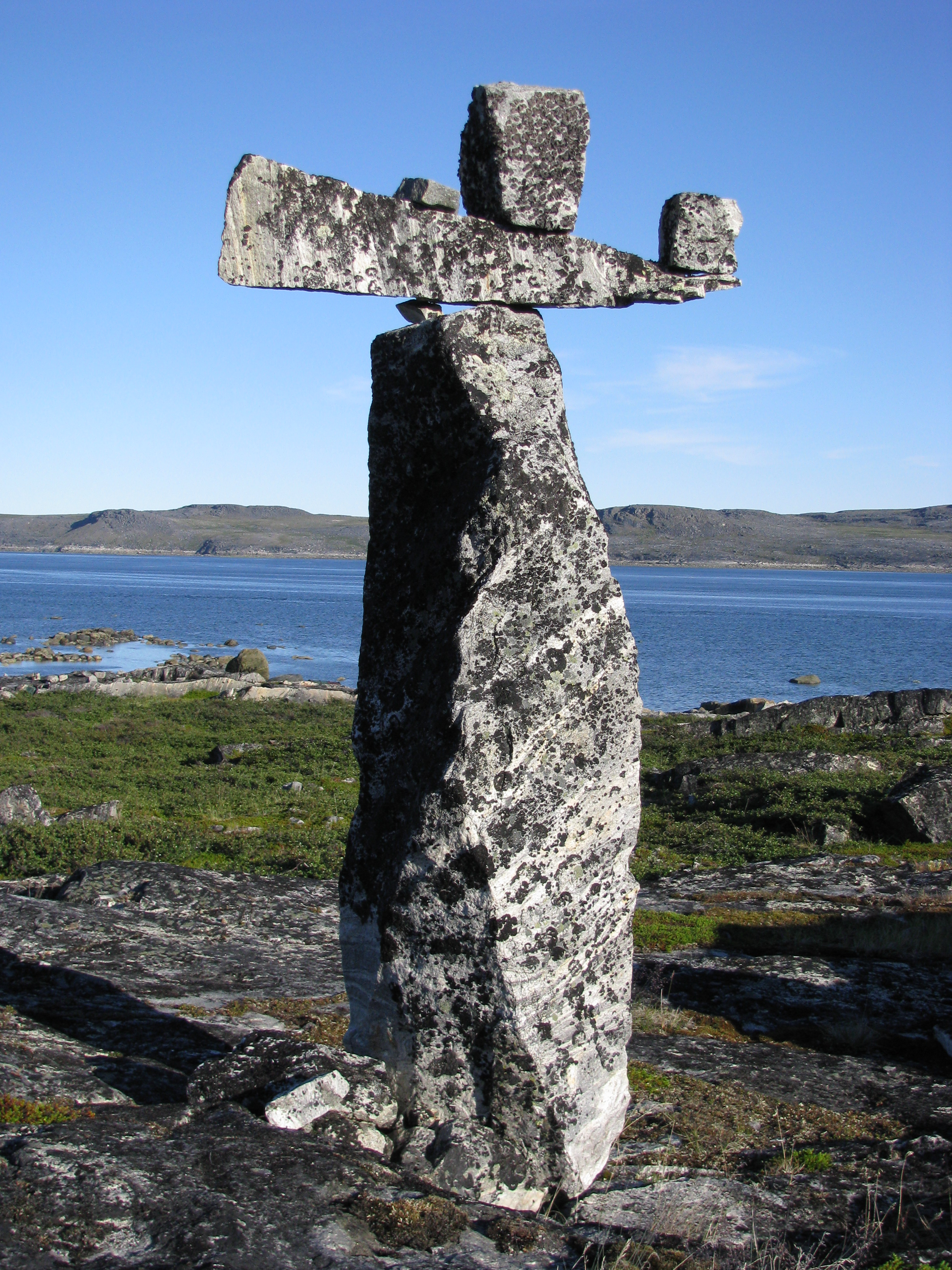 Hammer of Thor monument on northern shores of Payne River, Ungava Peninsula, Nunavik, Quebec, Canada